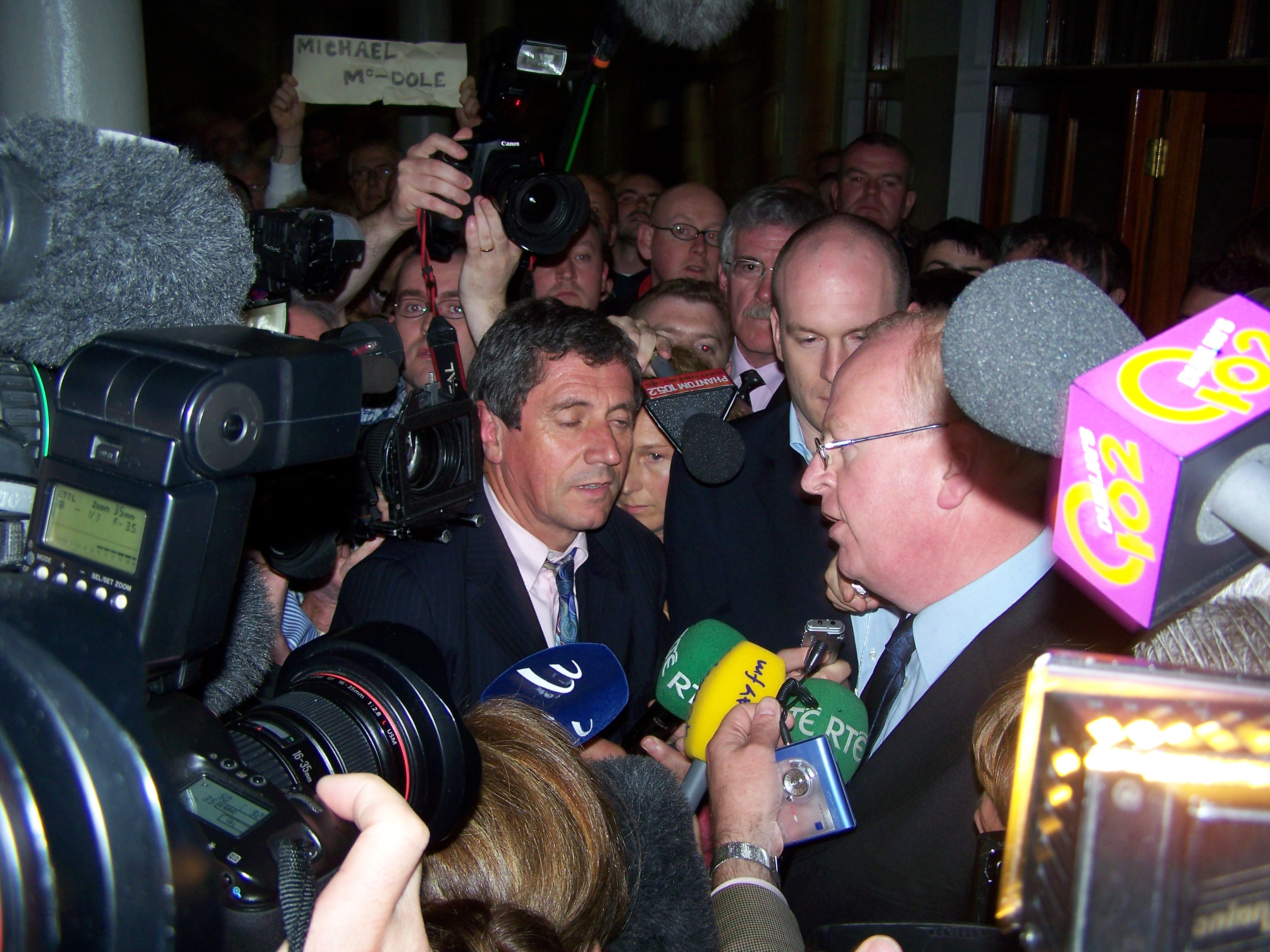 Author: Rory Deegan Other versions: :Image:Elections who needs em 052 crop1.jpg (crop)